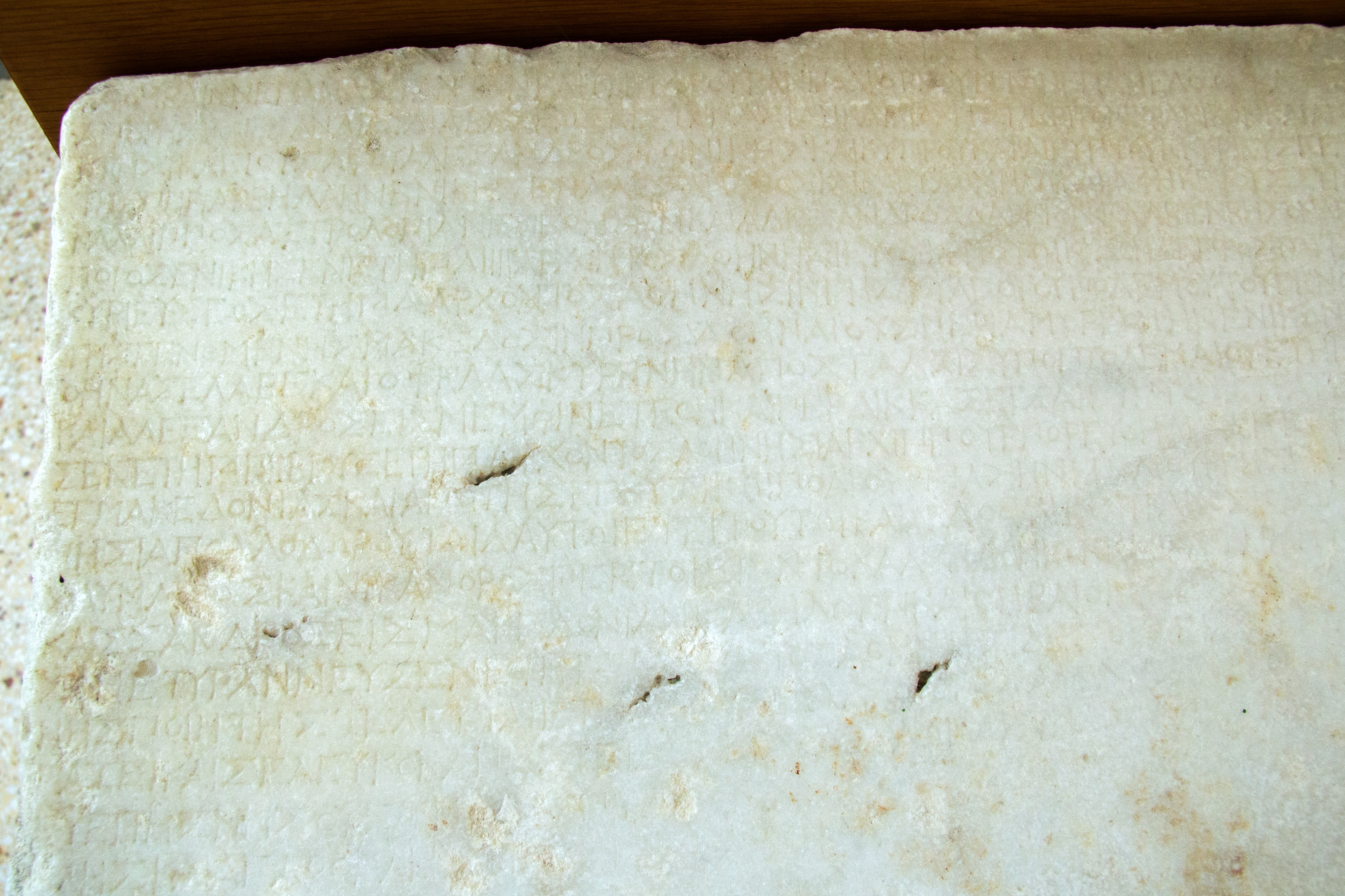 The Parian Chronicle (Marmor Parium), 3rd century BC. One of the three parts of the stele on which the Parian Chronicle was inscribed, detail. Image contrast is artificially increased, the inscription is visible. Archaeological Museum of Paros, A 26.